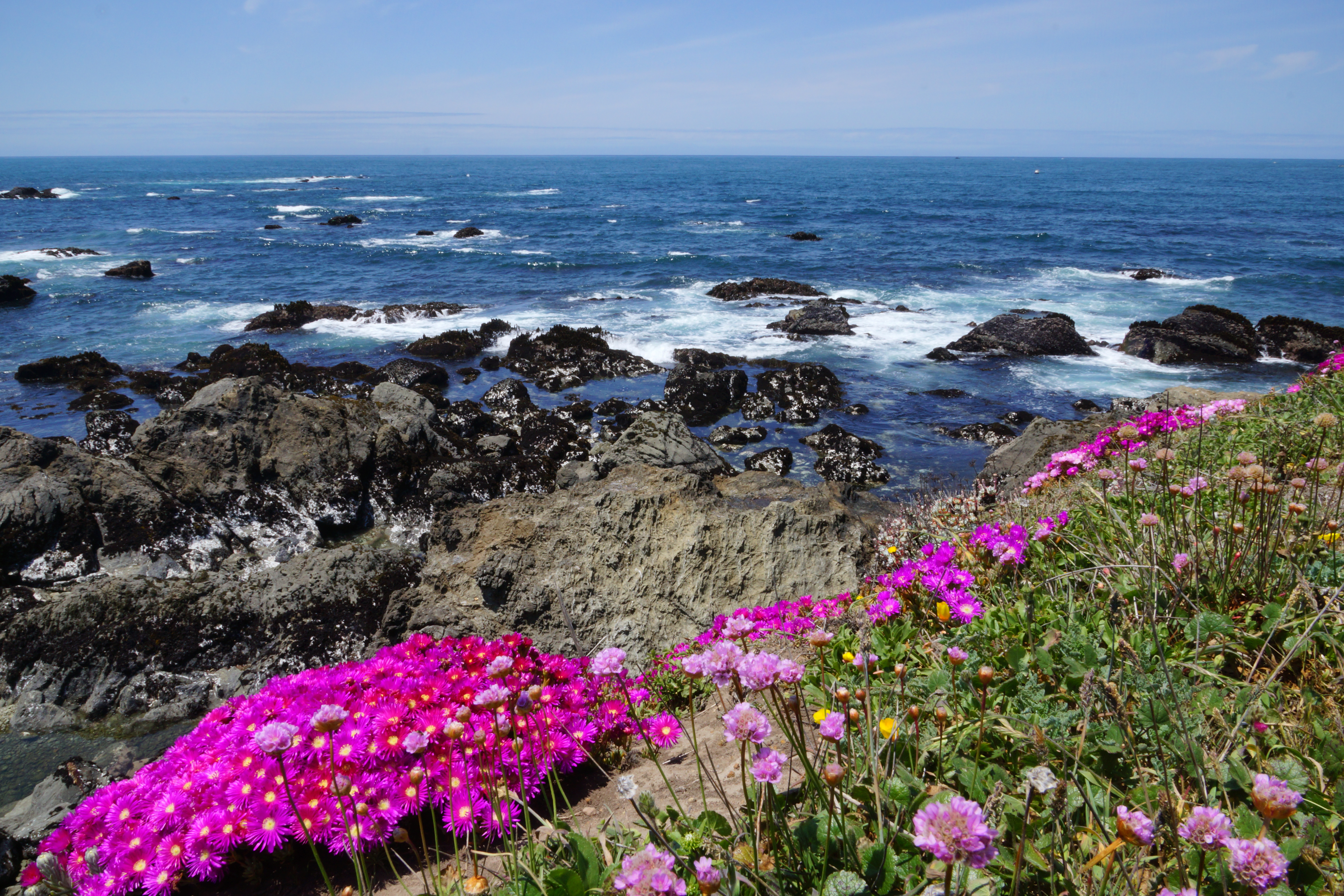 Mendocino Coast Botanic Gardens